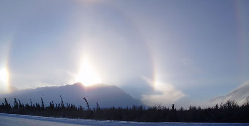 Haloes over the Kluane Range viewed from the Alaska Highway near Haines Junction, YT. A 22° halo, two parhelia (sundogs), maybe a faint parhelic circle are visible, as well as a supralateral arc, faintly visible at the far right. The haloes are caused by ice crystals in the atmosphere.